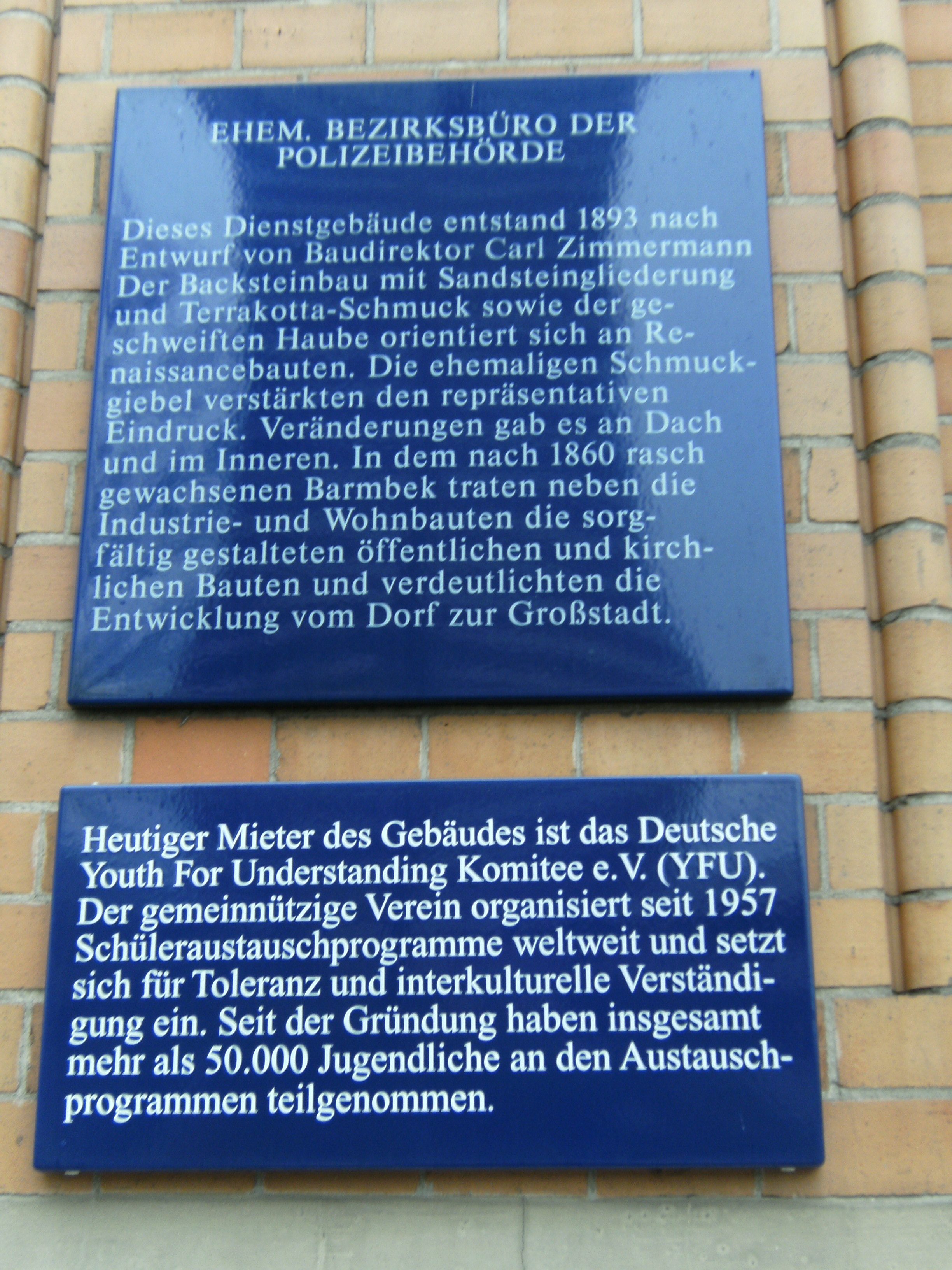 Hamburg-Mundsburg, Germany: Former police station Oberaltenallee (ehemalige Polizeiwache Oberaltenallee). Seat of German Youth for Understanding committee. Historical explanations on blue plaque of Tafelprogramm Hamburg.